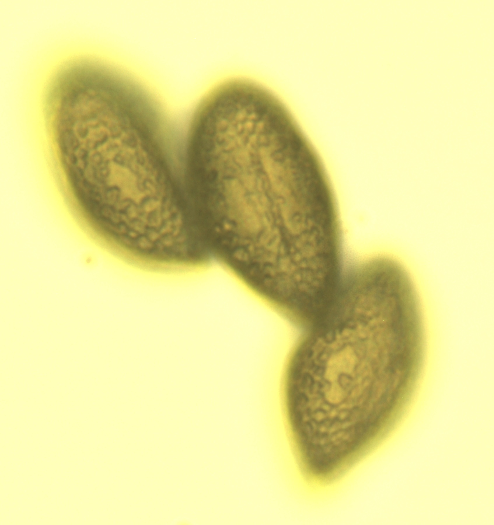 Brassica juncea Pollen 400x